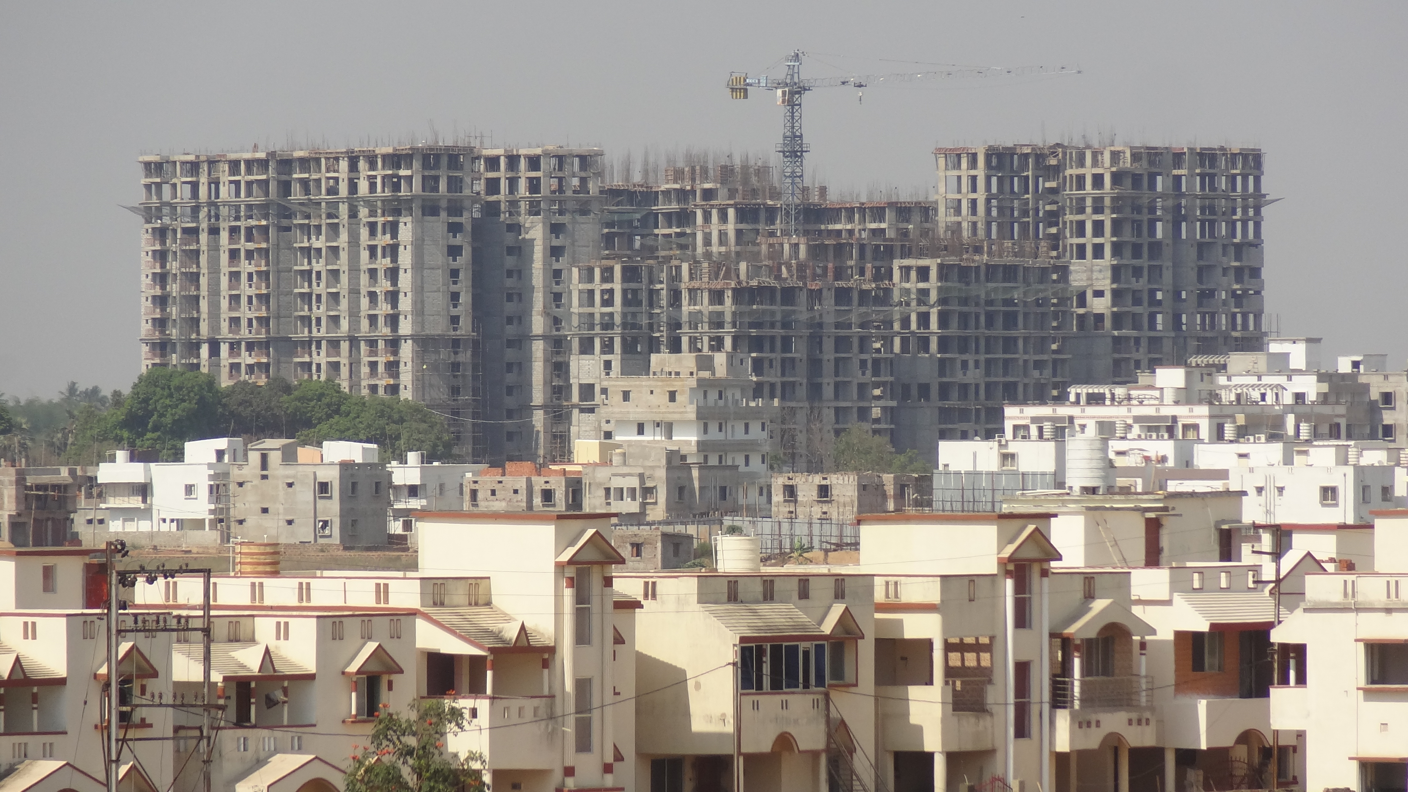 Royal Lagoon High Rise in Raghunathpur, Bhubaneswar